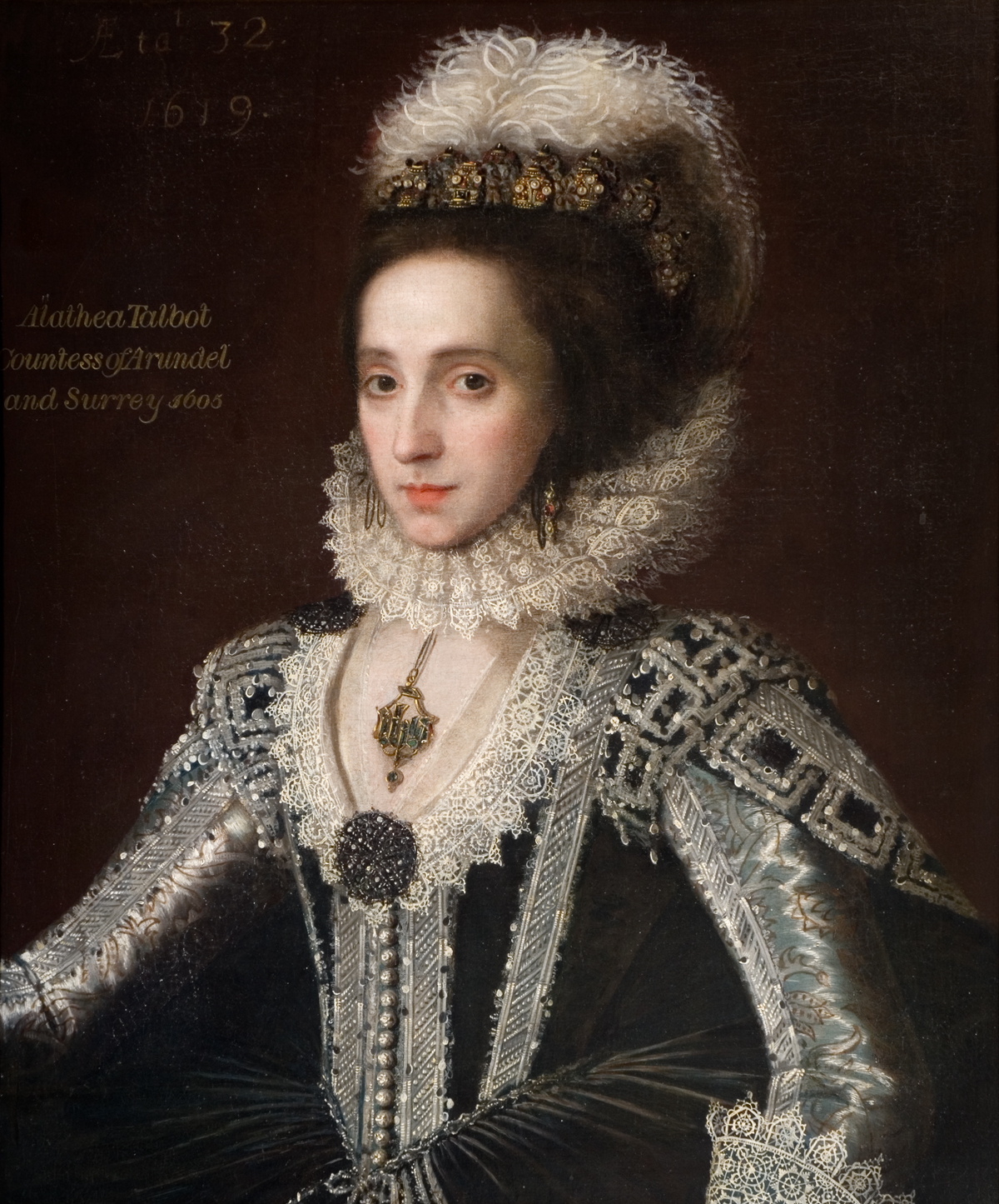 Alathea Talbot (c.1590–1654), Countess of Arundel and Surrey